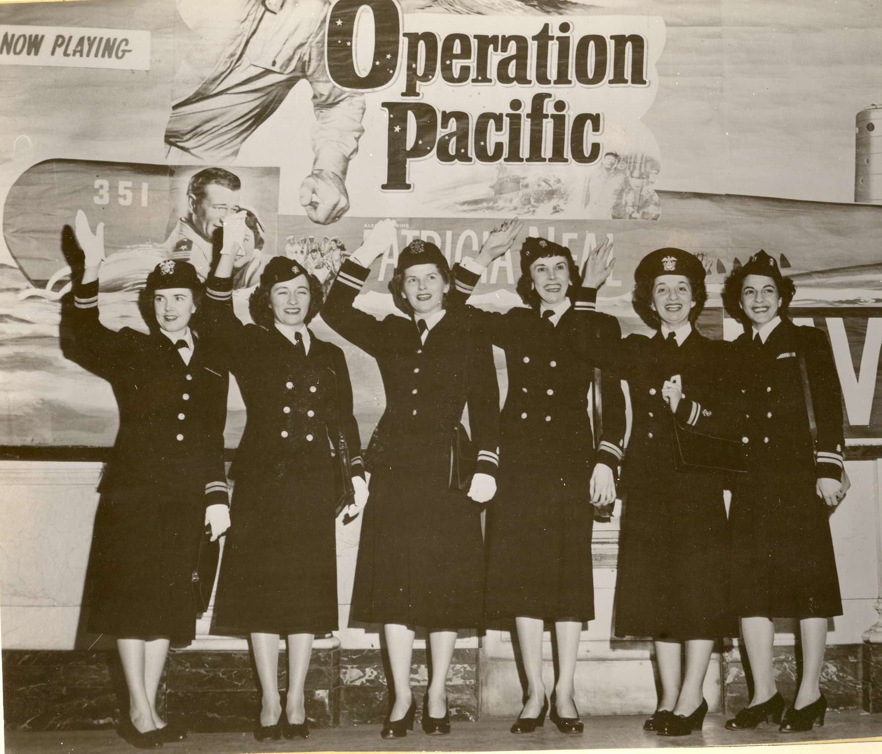 Navy nurses at the premiere of "Operation Pacific." 1951.